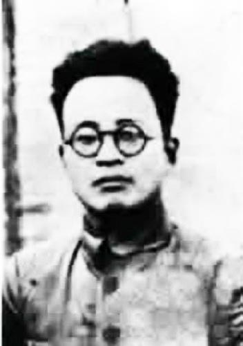 Qin Bangxian （1907－1946）